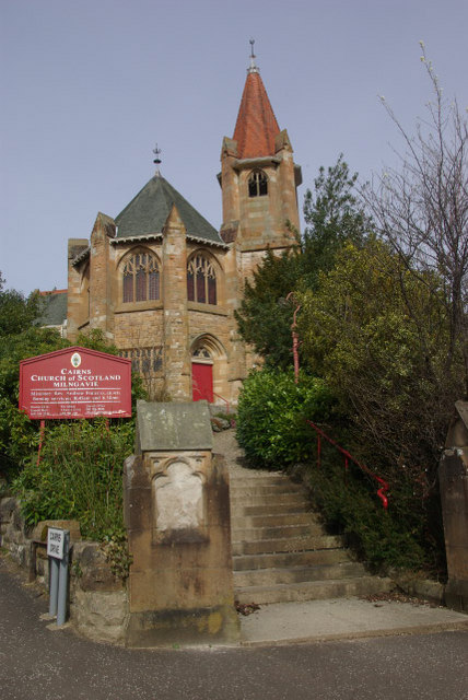 Cairns Church, Milngavie On the corner of Buchanan Street and Cairns Drive. This church - the present building dates back to 1903, although there has been a church on this site since 1799 - has had an interesting history, only becoming a Church of Scotland parish church in 1929 following union with the United Presbyterian Church. It was named in 1868 after the Principal of the United Presbyterian Divinity College, John Cairns.